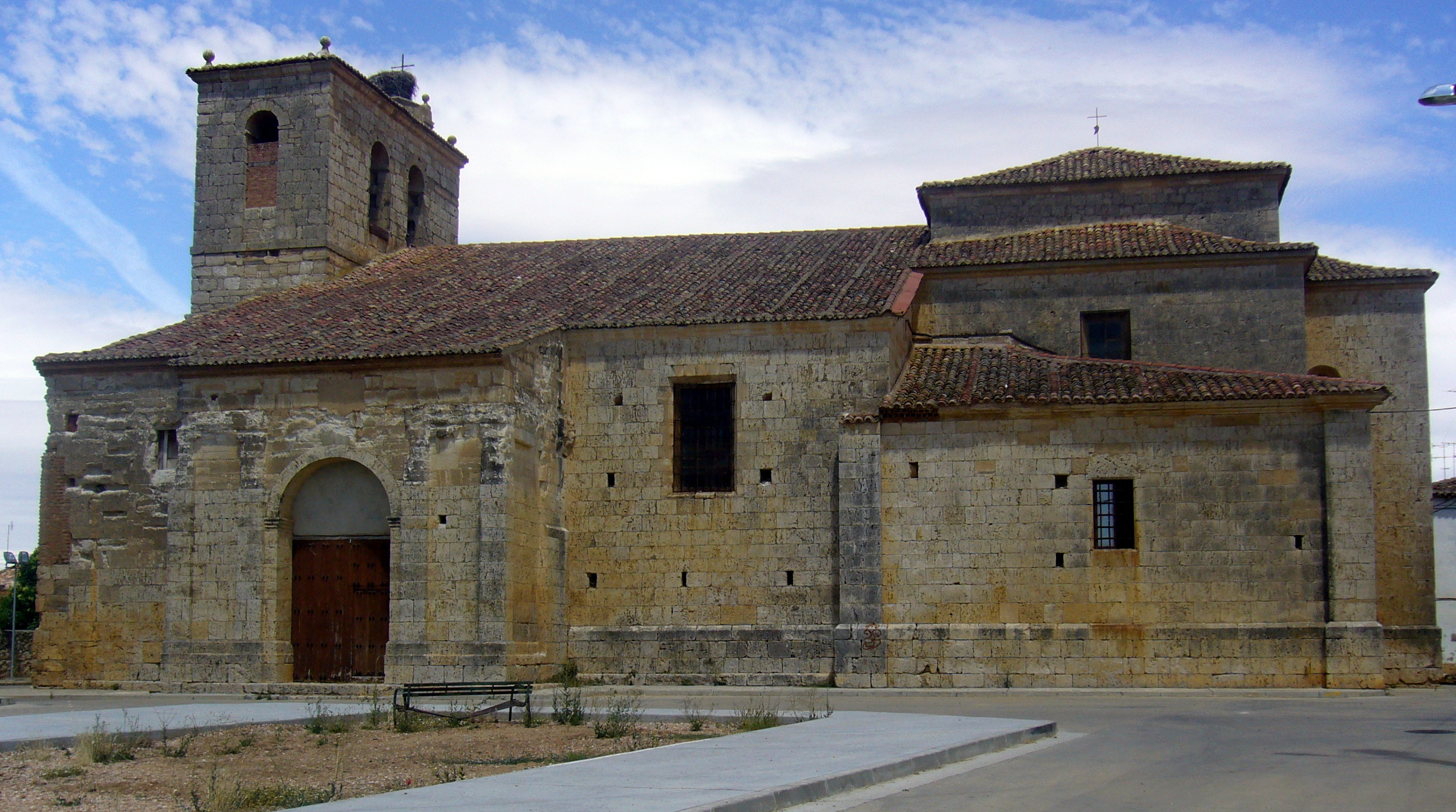 Church of Saint Peter in Itero de la Vega, Palencia, Castile and León, Spain.